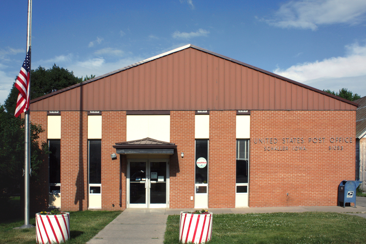 Schaller, Iowa, USA, post office on S Main St.